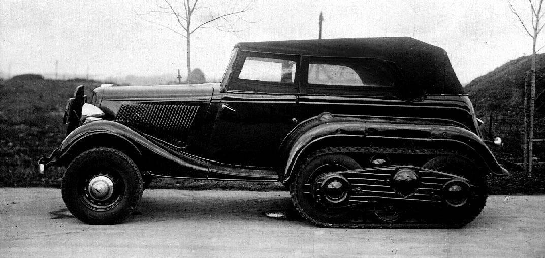 Soviet experimental half-track car GAZ-VM with phaeton body during the state tests, left view.